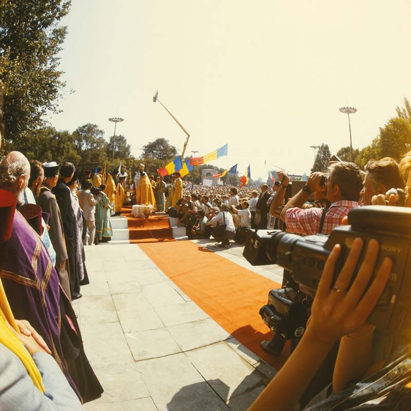 On holiday Limba Noastra (31 August 1989).